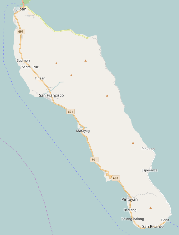 Panaon Island, Southern Leyte, Philippinen